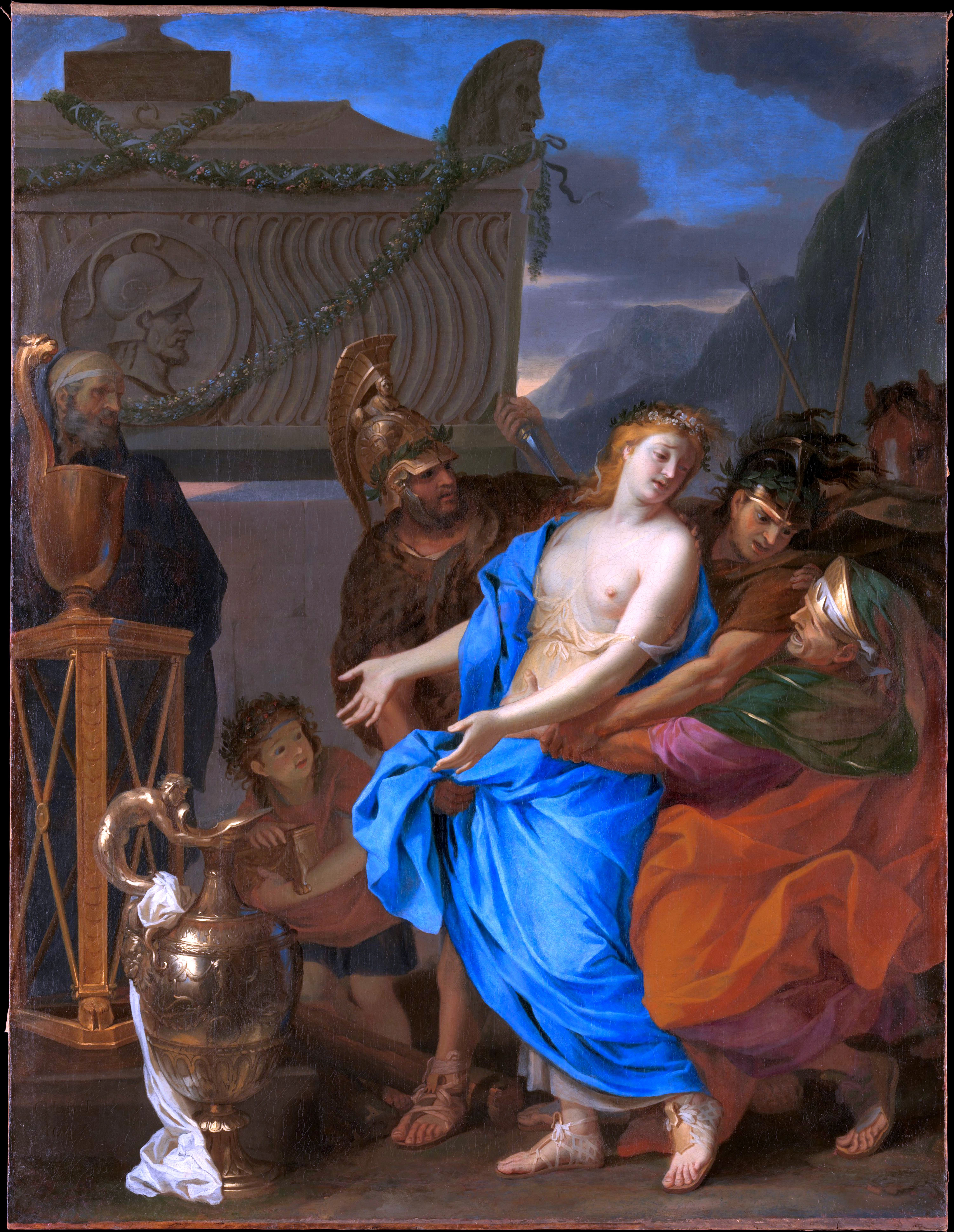 As recounted by the Roman poet Ovid, Polyxena is led to her death at the sacrificial altar to appease the ghost of the hero Achilles. Her mother tries to restrain her while the soldier Neoptolemus raises his sword. The infant holding a chest of incense and the austere priest complete this composition.